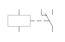 Representation of a relay in the circuit diagram (without designation).